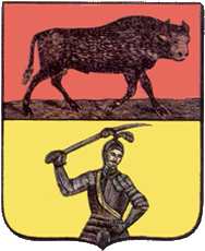 Coat of arms of Sokółka town from year 1845